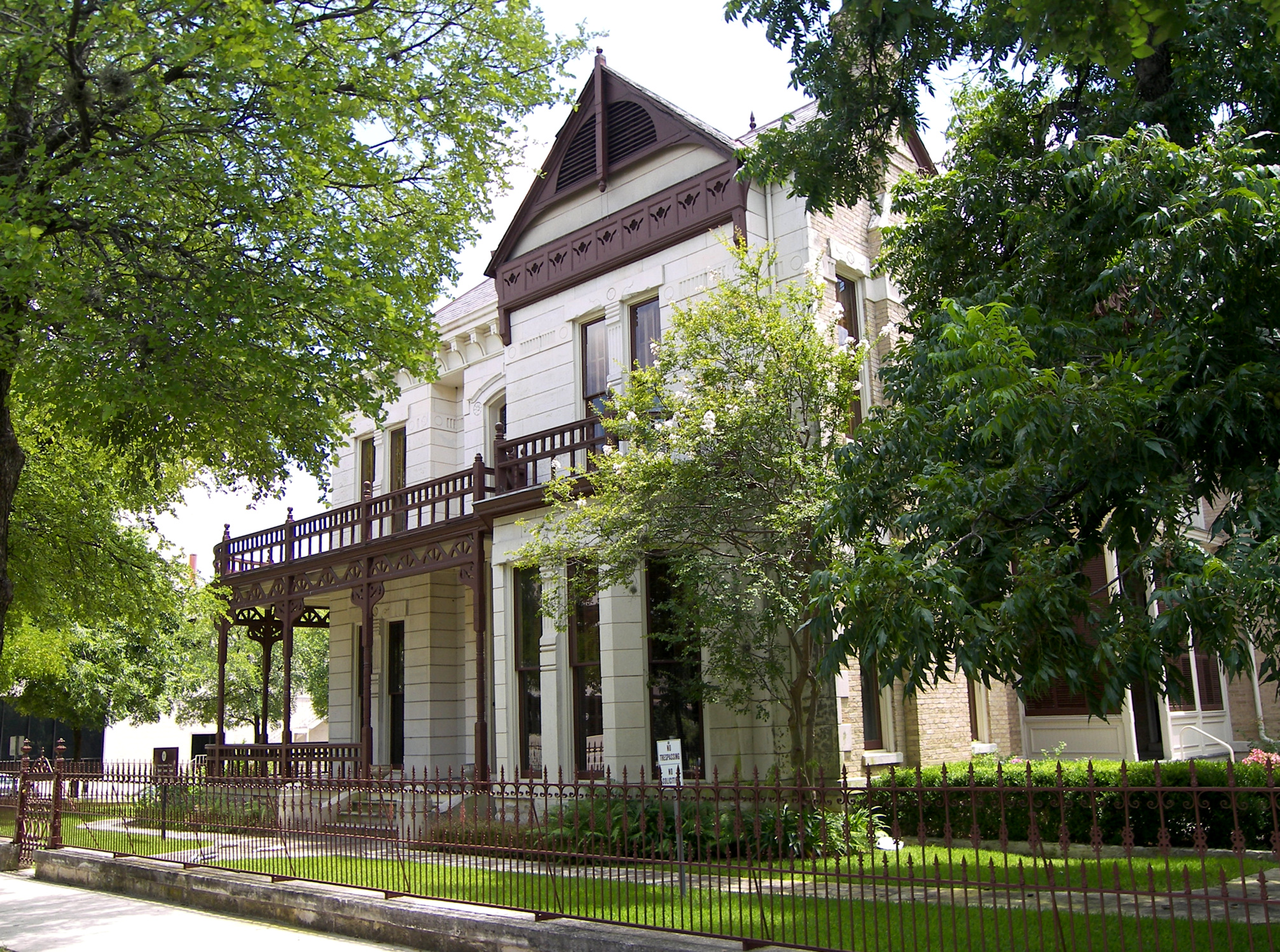 The Henry Hirshfeld House located at 303 W. 9th St, Austin, Texas, United States. The house was designated a Recorded Texas Historic Landmark in 1962 and listed on the National Register of Historic Places on April 13, 1973